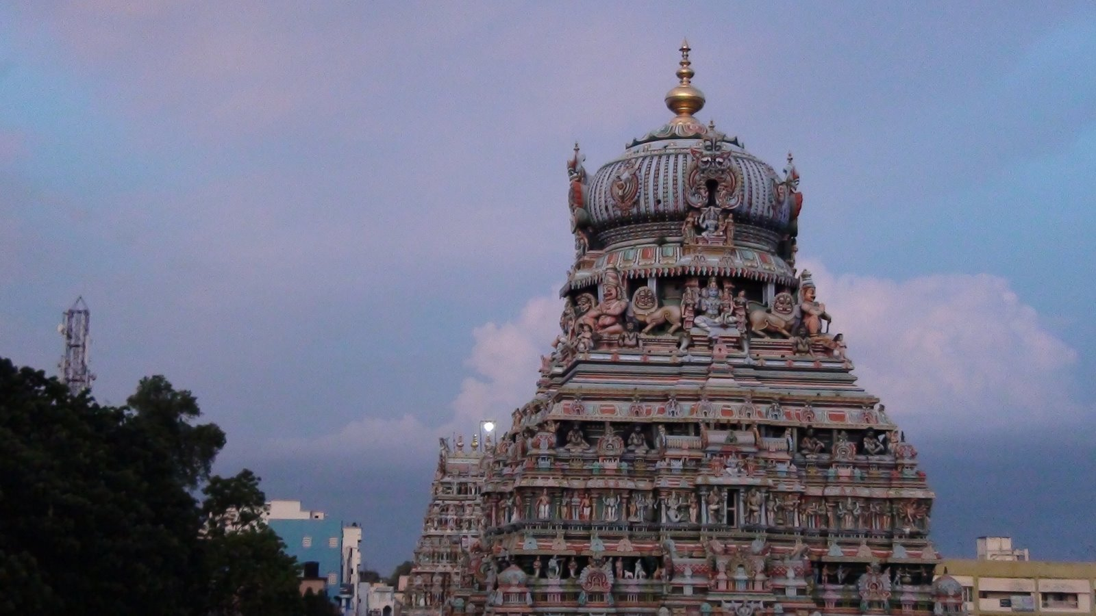 Madurai Koodal Azhagar temple